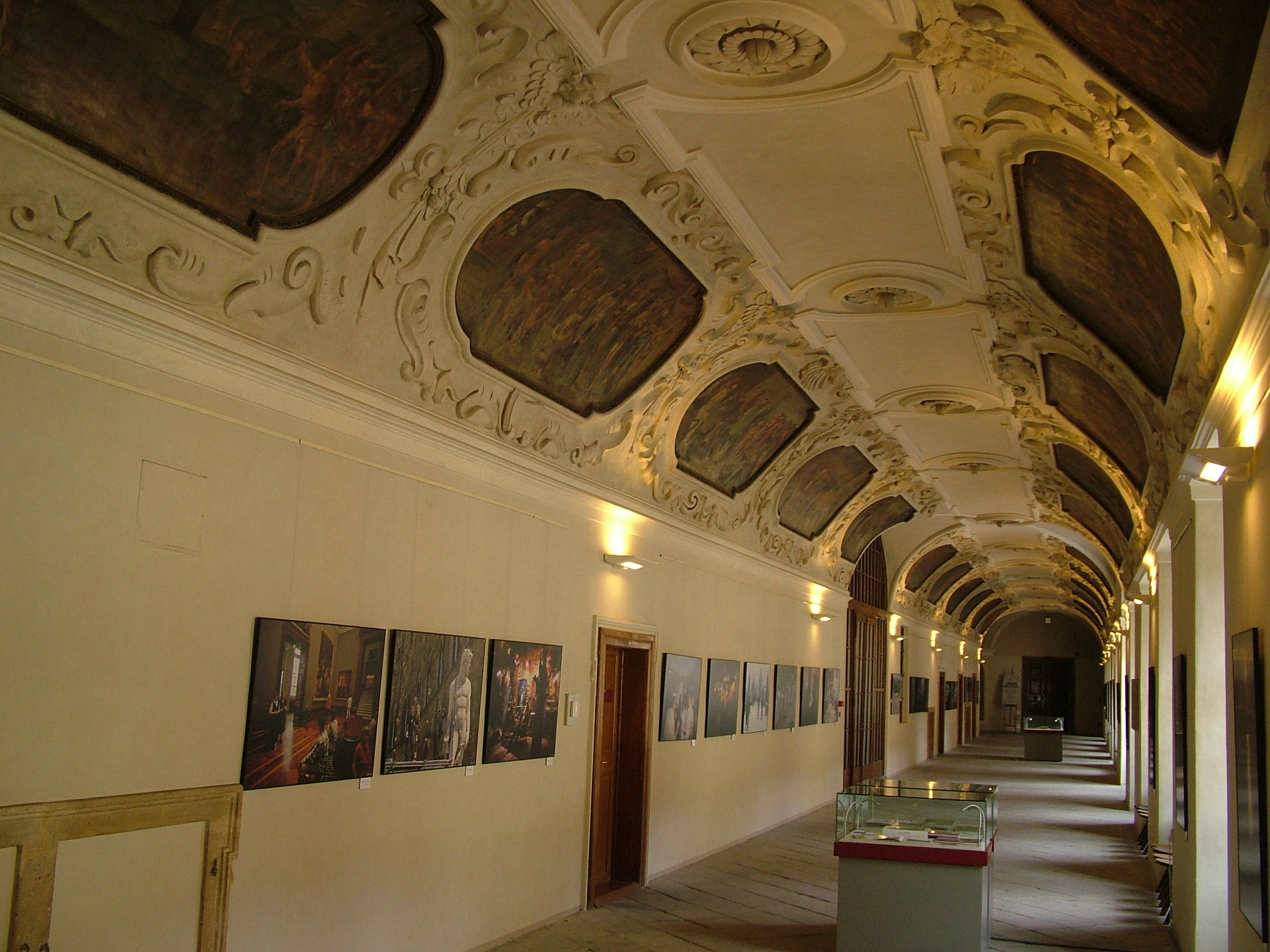 Karol Benicky, exhibition Orbis pictus in National bibliothek Klementinum, Prague 2008